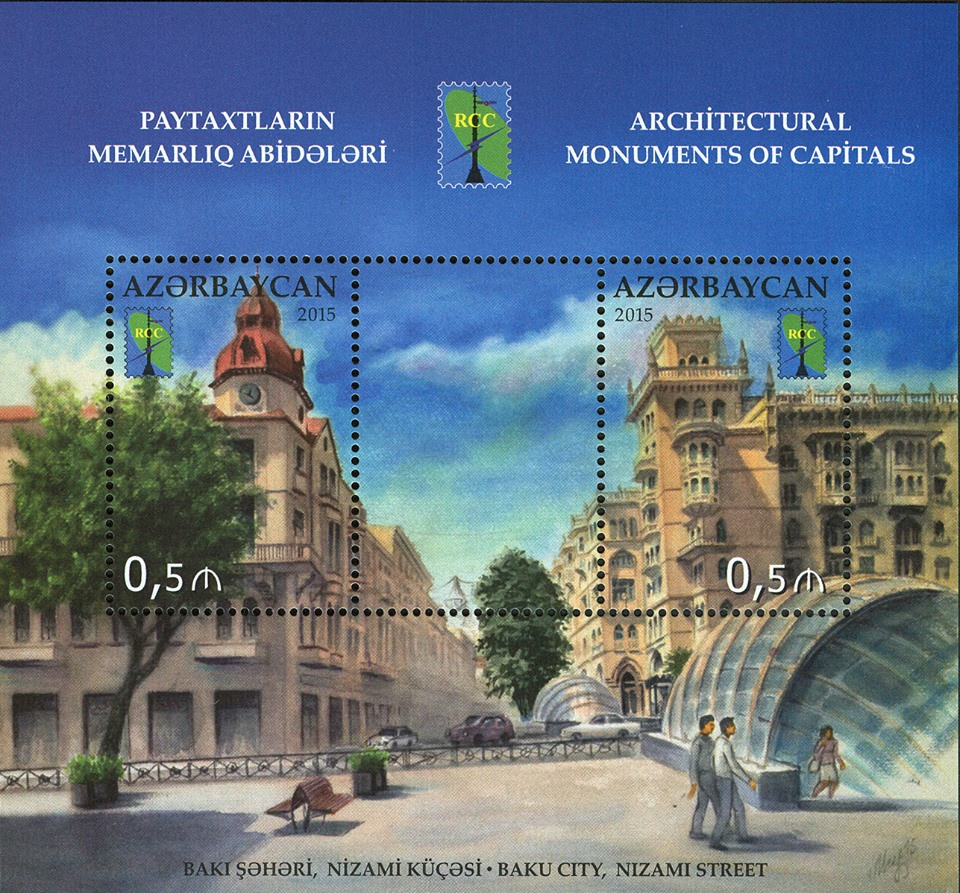 Architectural monuments of capitals. N 1234 – N 1235 - 50 qapik of each – There are pictured Nizami street in Baku city on the stamps and on the field of souvenir sheet.